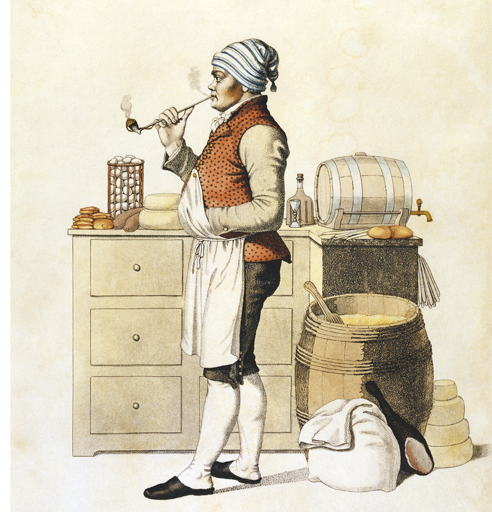 Copper engraving showing a hawker (danish: høker) in his shop.